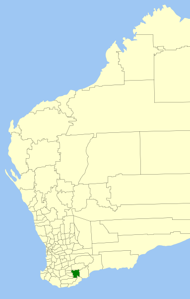 Description=Location of the Local Government Area in Western Australia